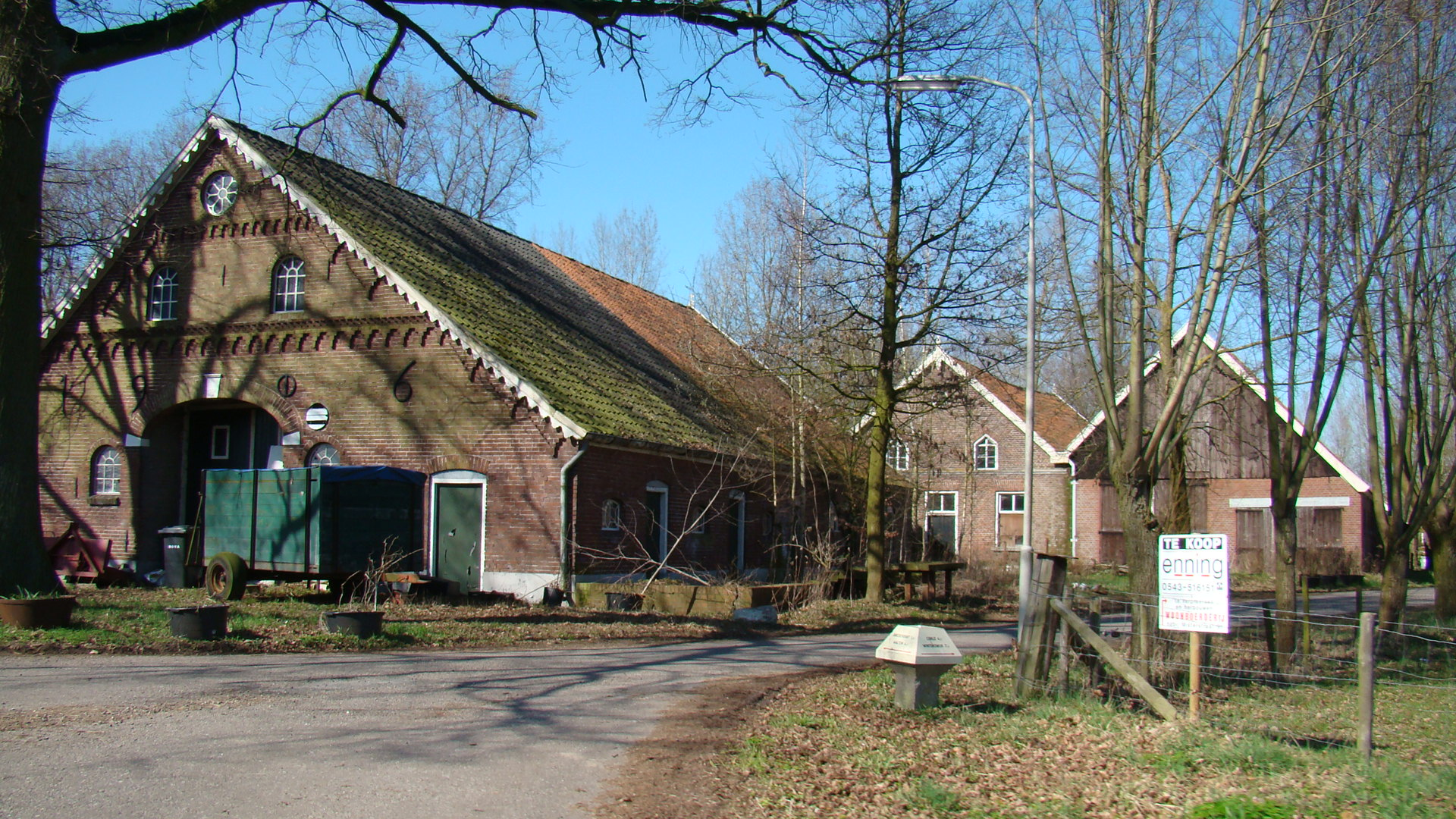 "Lesten Stuver" monumental farmhouse near Bredevoort, The Netherlands